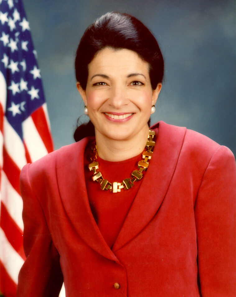 Olympia Snowe, U.S. Senator.